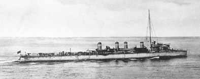 Postcard picture of the Swedish destroyer HMS Mode (1).